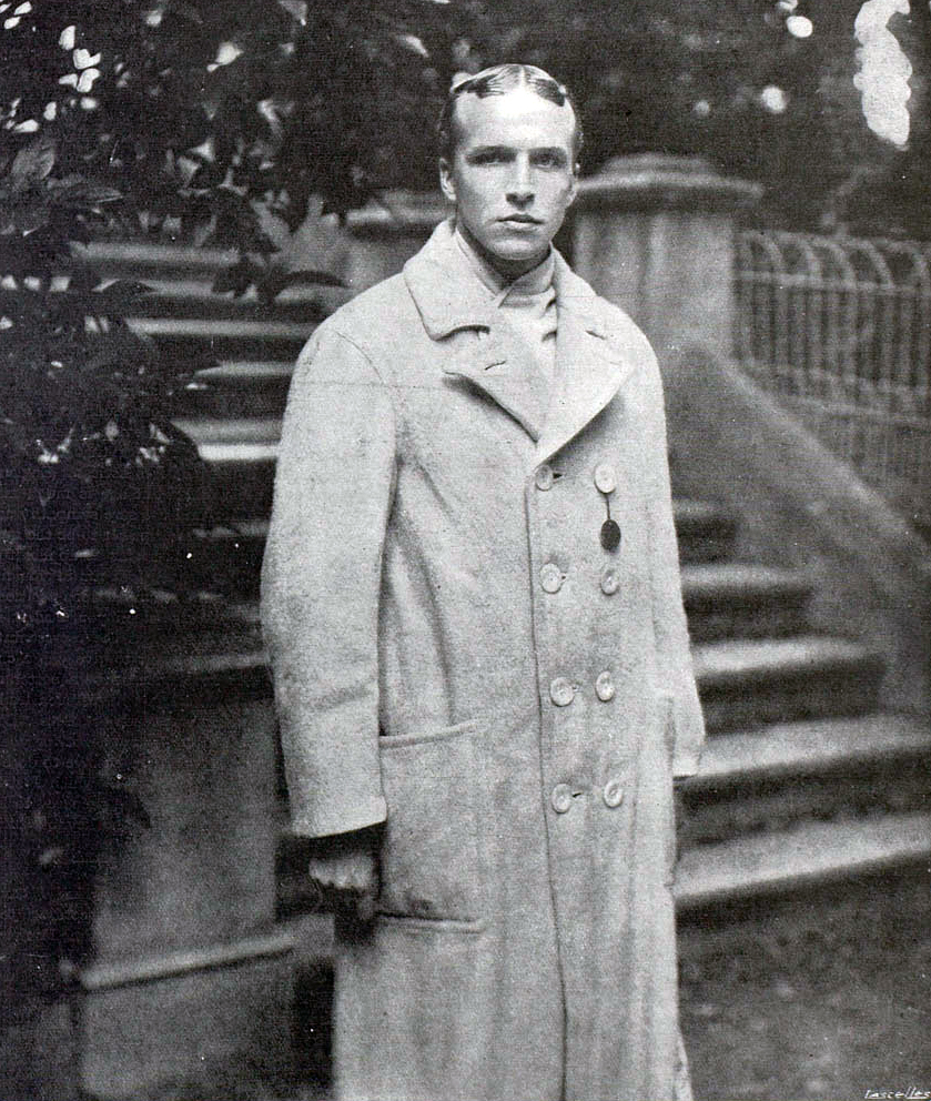 English tennis player Kenneth Powell